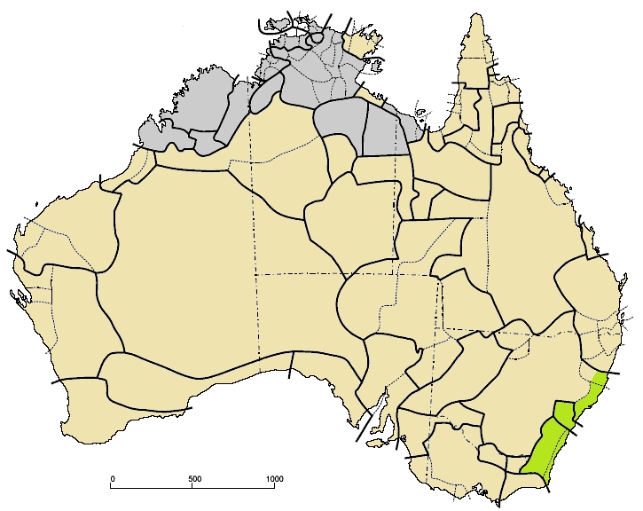 Yuin–Kuric languages (green) among other Pama–Nyungan (tan). From southwest to northeast, the three groups are Yuin, Yora, and Kuri.